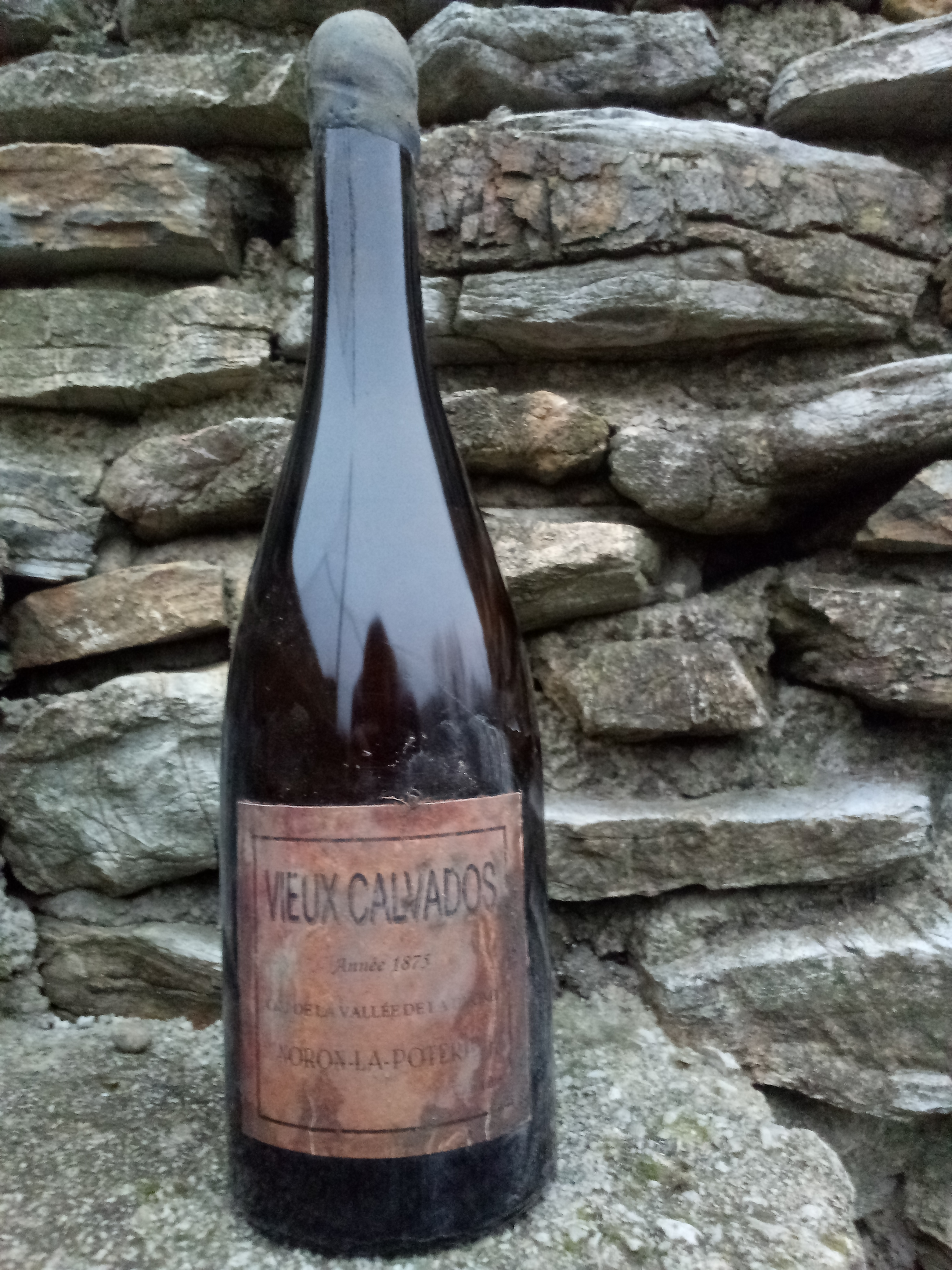 rare bottle